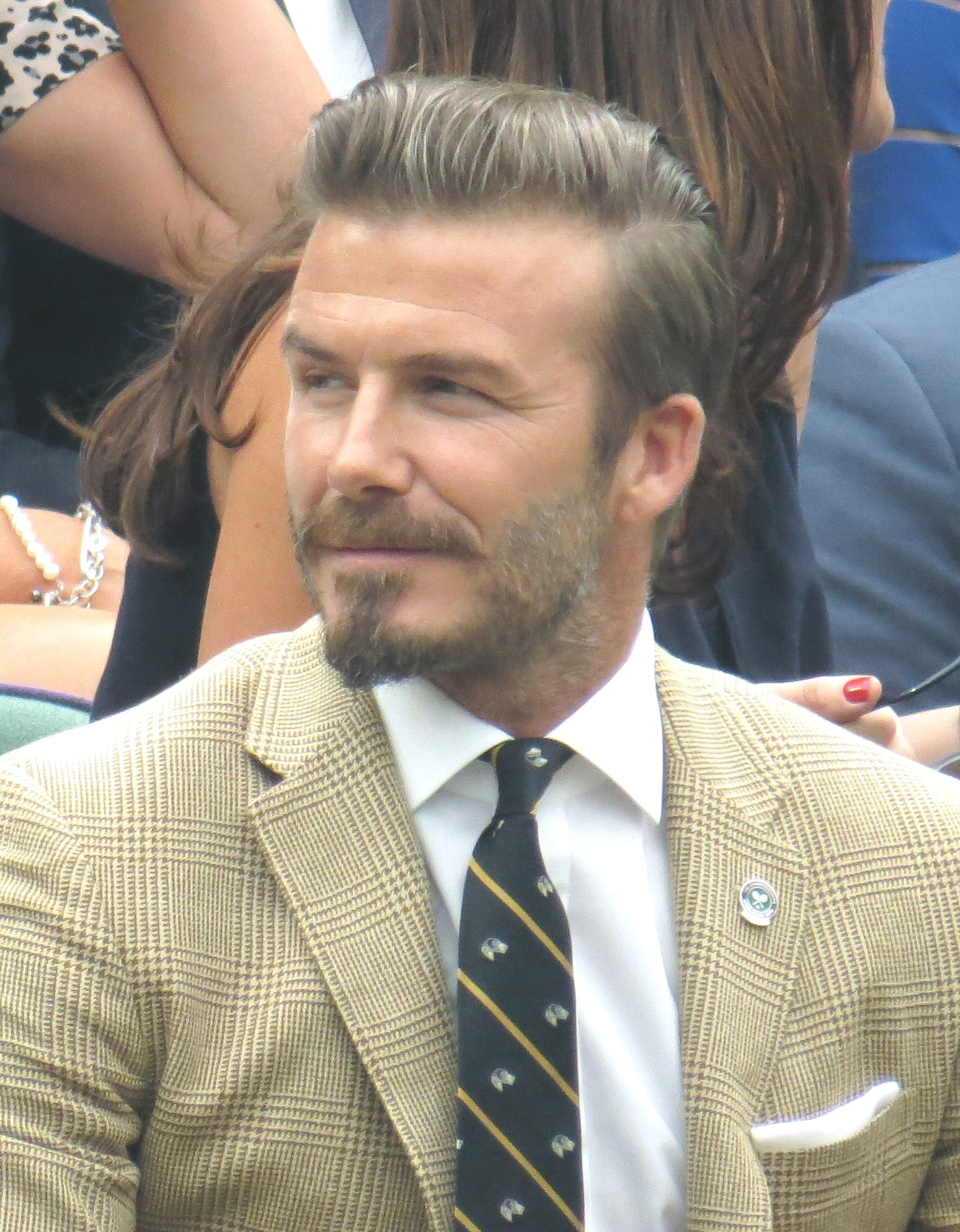 David Beckham in the royal box, Wimbledon 2014